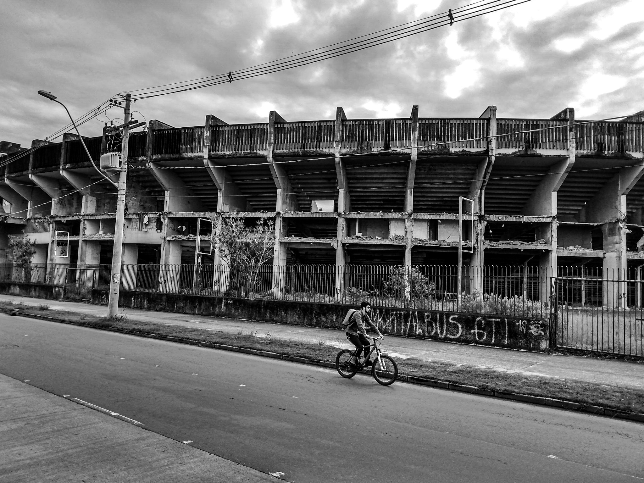 Location: BrasilEvent type: StreetDate or year: 2019